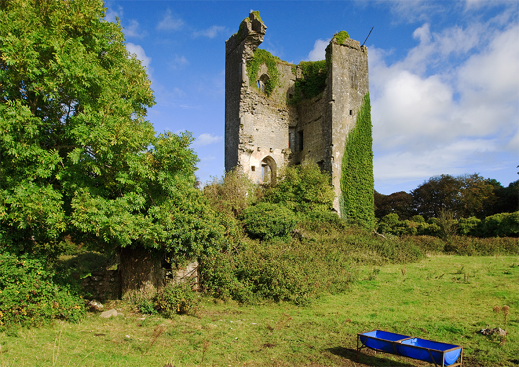 Castles of Munster: Kilkishen, Clare On the road north from Sixmilebridge to Kilkishen in the Kilkishen Demesne stands the remains of a five storey tower, whose southern half collapsed spectacularly in 1989. It was said to have been built by Sean MacNamara in c.1500, and was forfeited to Henry Ivers during the 1650s. It was later sold to John Cusack.